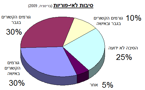 Causes of infertility, data compiled in the United Kingdom 2009. Reference: Regulated fertility services: a commissioning aid - June 2009, from the Department of Health UK